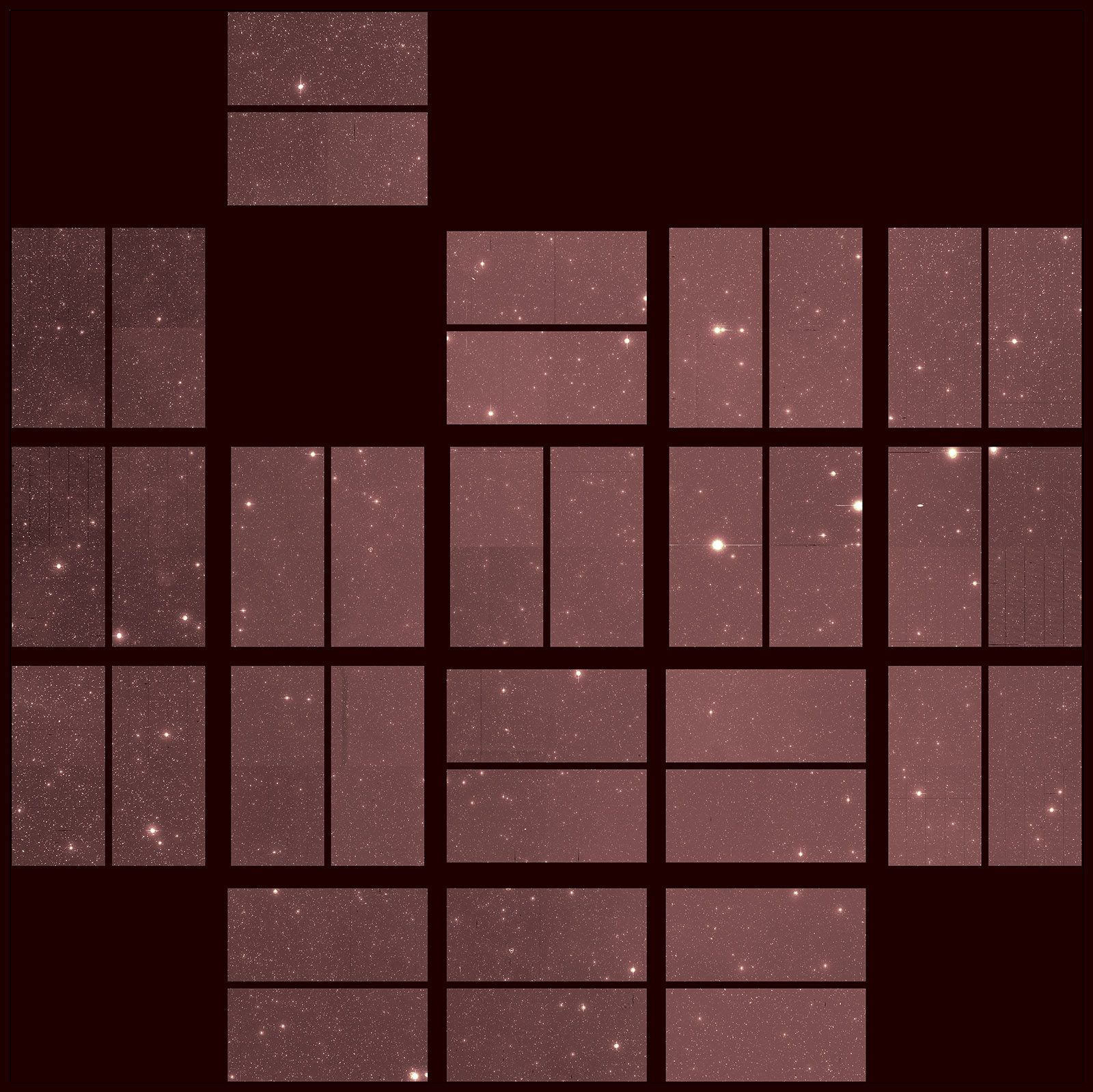 A collage it's last view on the Aquarius constellation. The black gaps are due to camera failure.